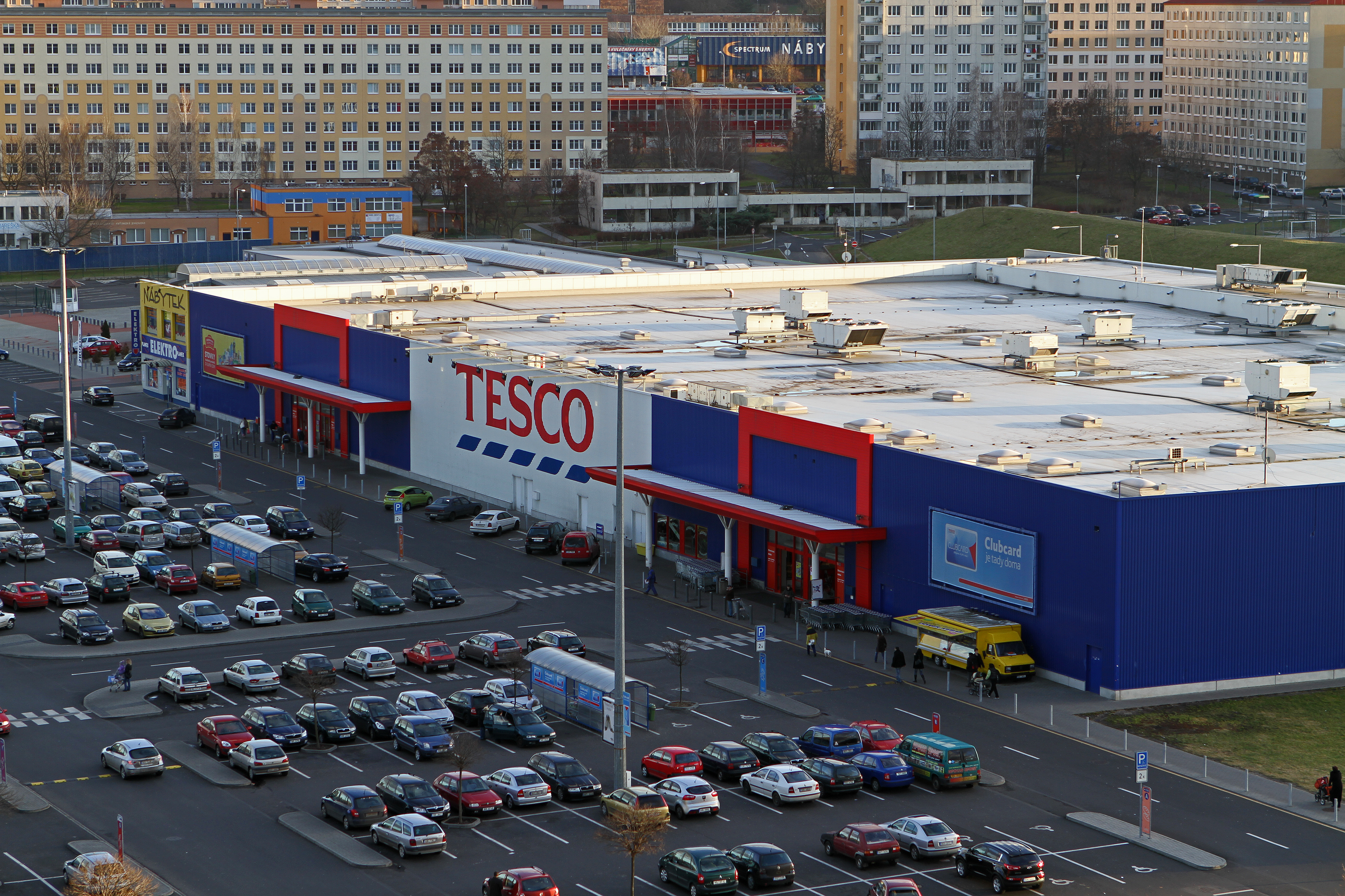 Tesco supermarket in Most, Czech Republic.